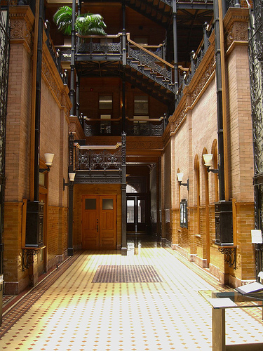 The iron-wrought interior of the Bradbury Building. Visitors are not allowed beyond the ground floor level.